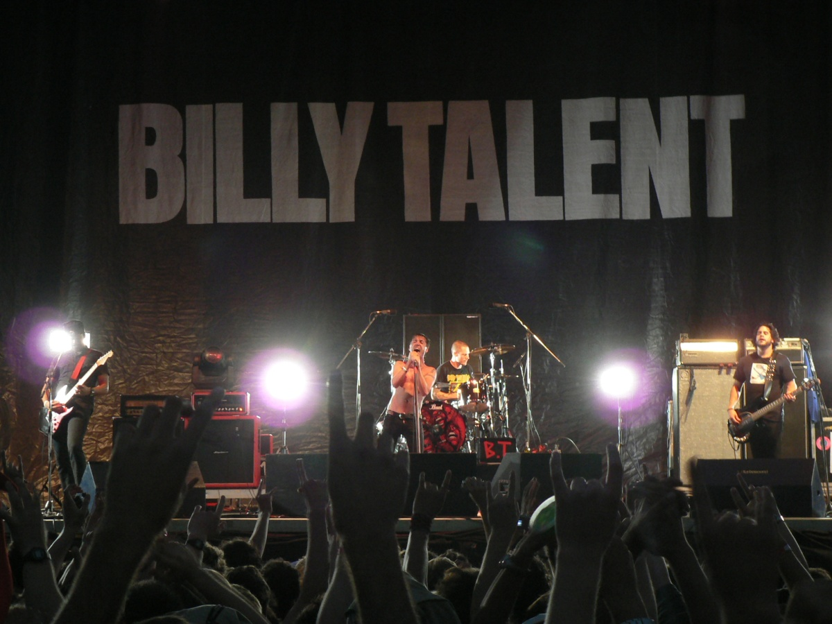 Billy Talent at Rock Am See 2007